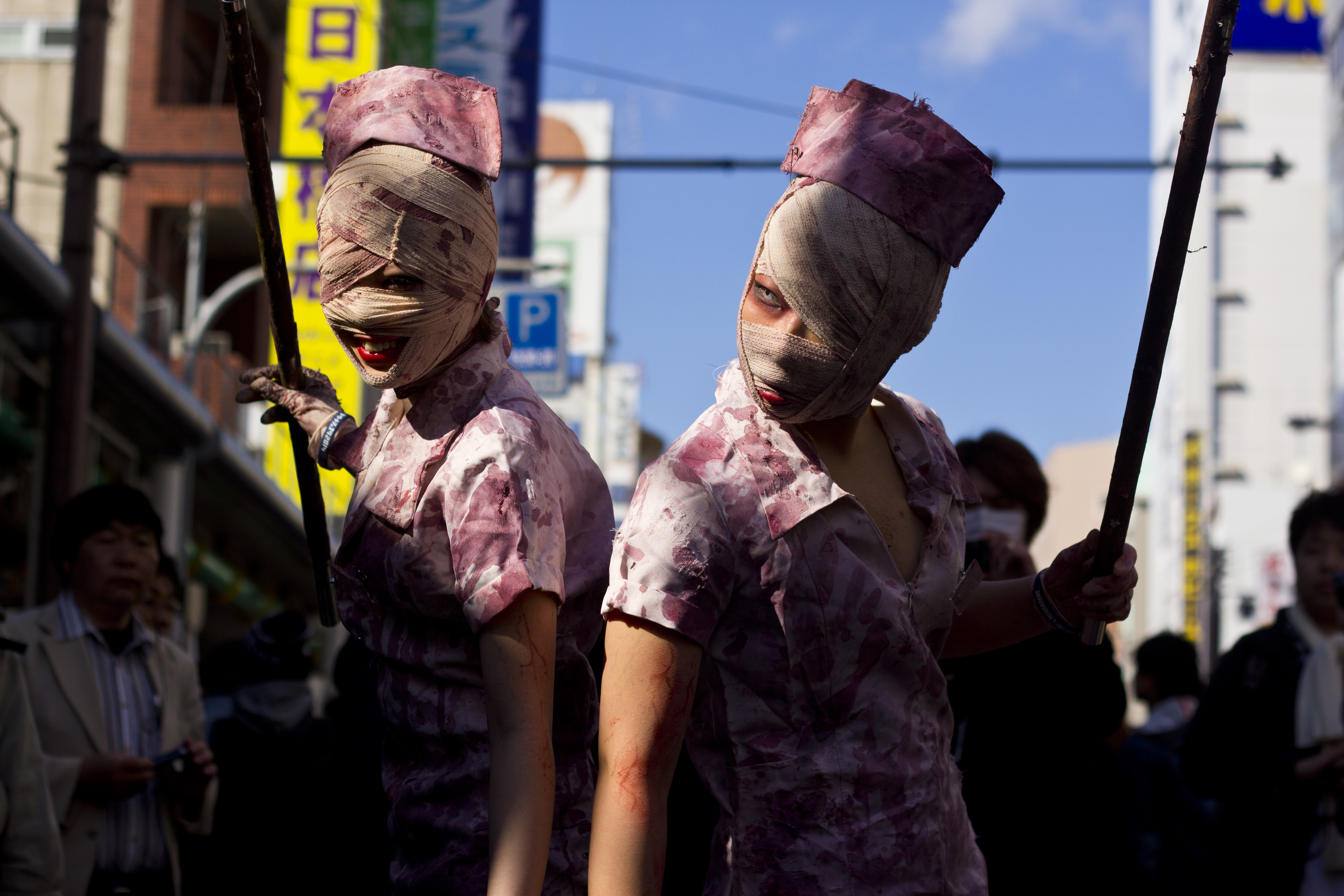 At the Nippombashi Street Festa 2014, in Osaka.